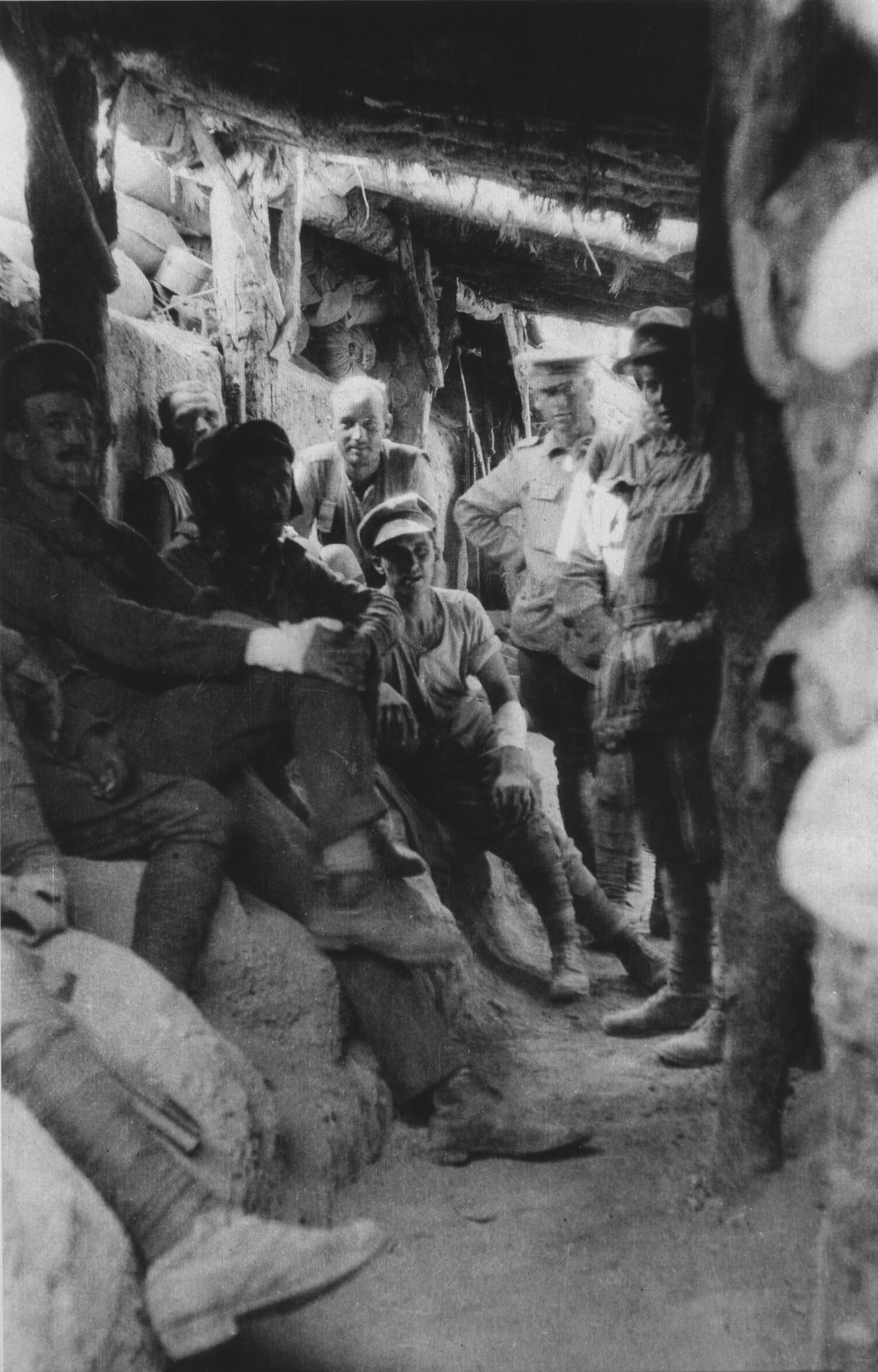 Australian soldiers, mainly from the 2nd and 3rd Battalions, in a Turkish trench captured during the Battle of Lone Pine, August 1915. The trench is roofed with pine logs to protect from shrapnel and grenades.